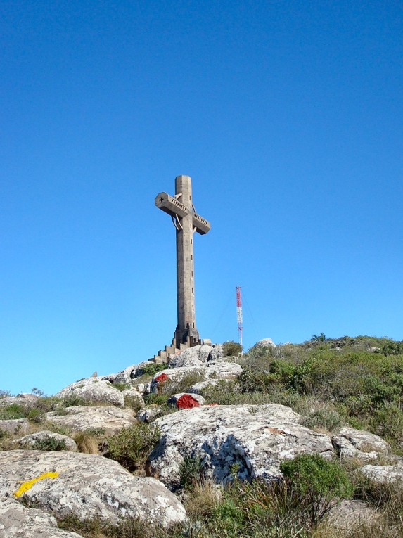 The cross at the top of Cerro Pan de Azúcar, Maldonado Department, Uruguay.